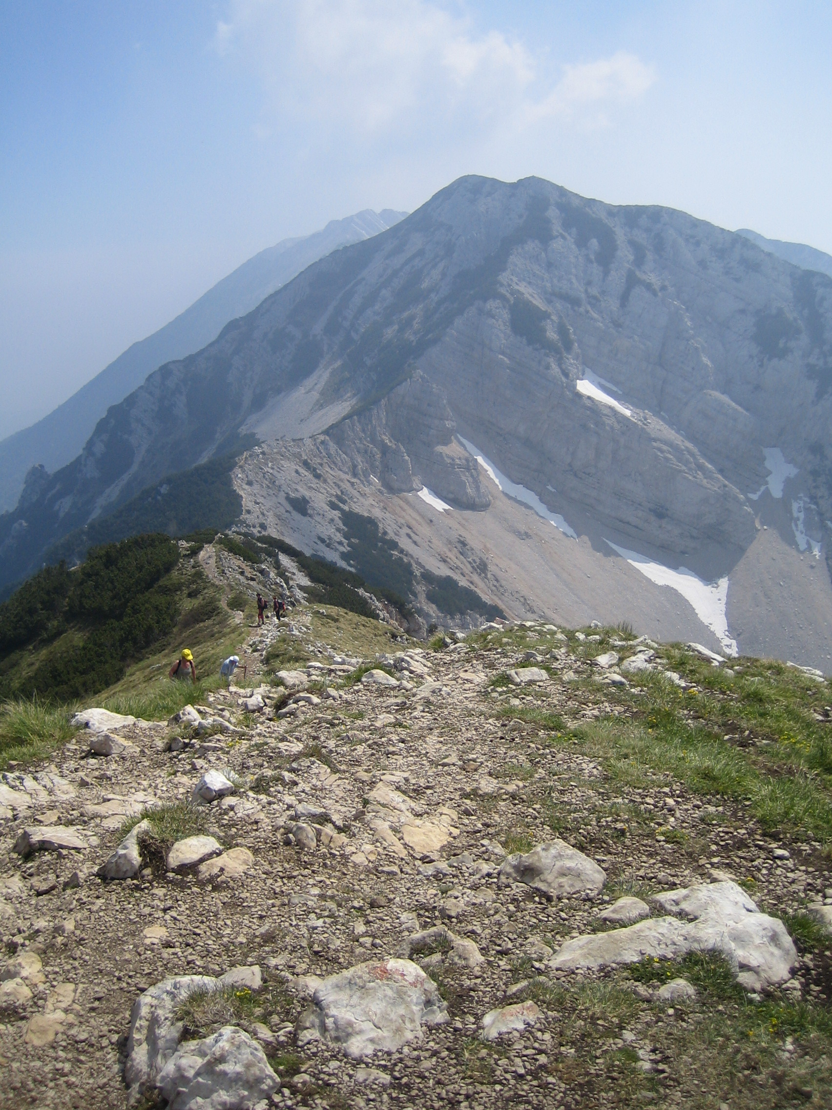 View from Cima delle Pozette to the south with Cima Valdritta